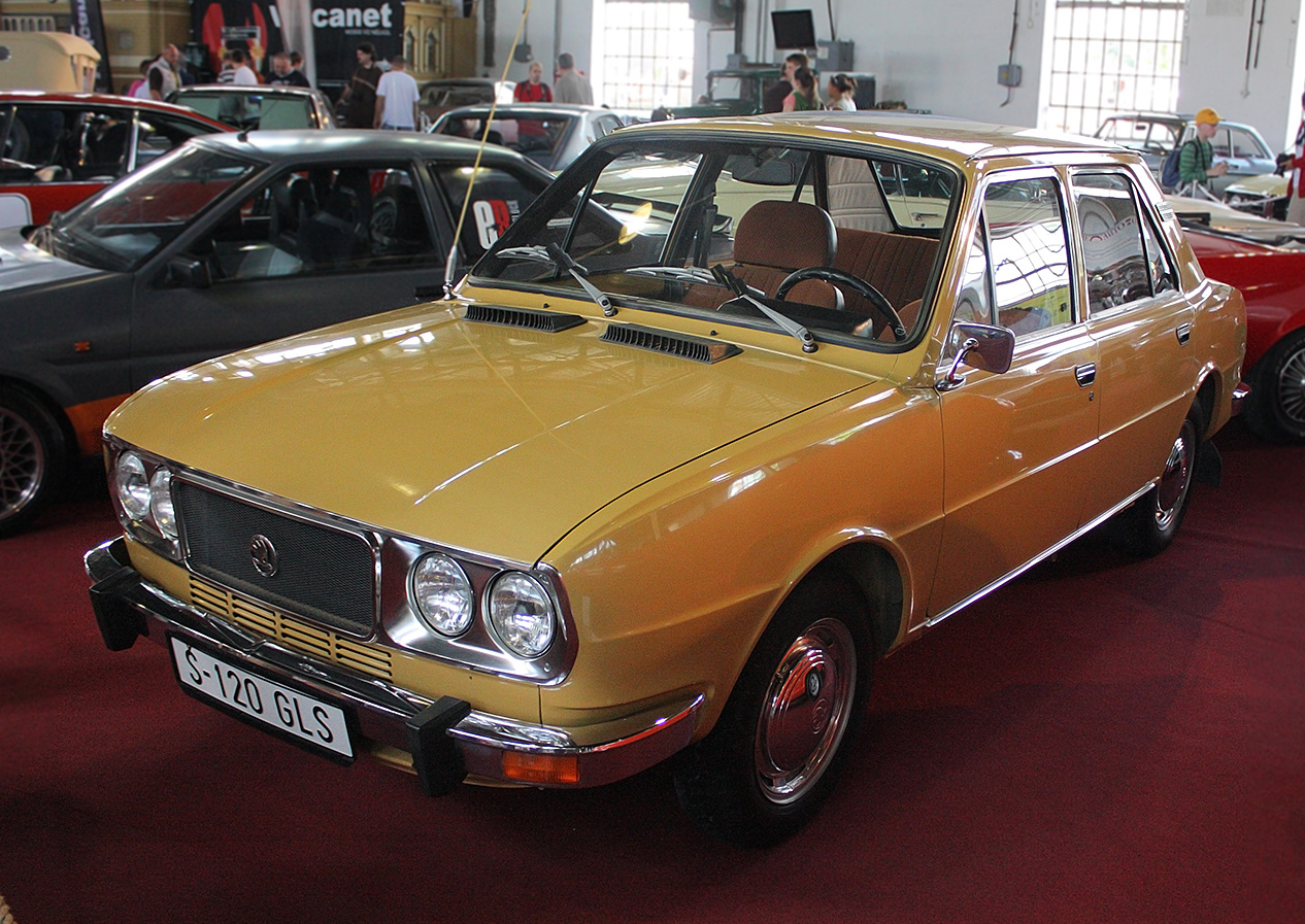 Škoda 120 GLS at a car show in Hungary